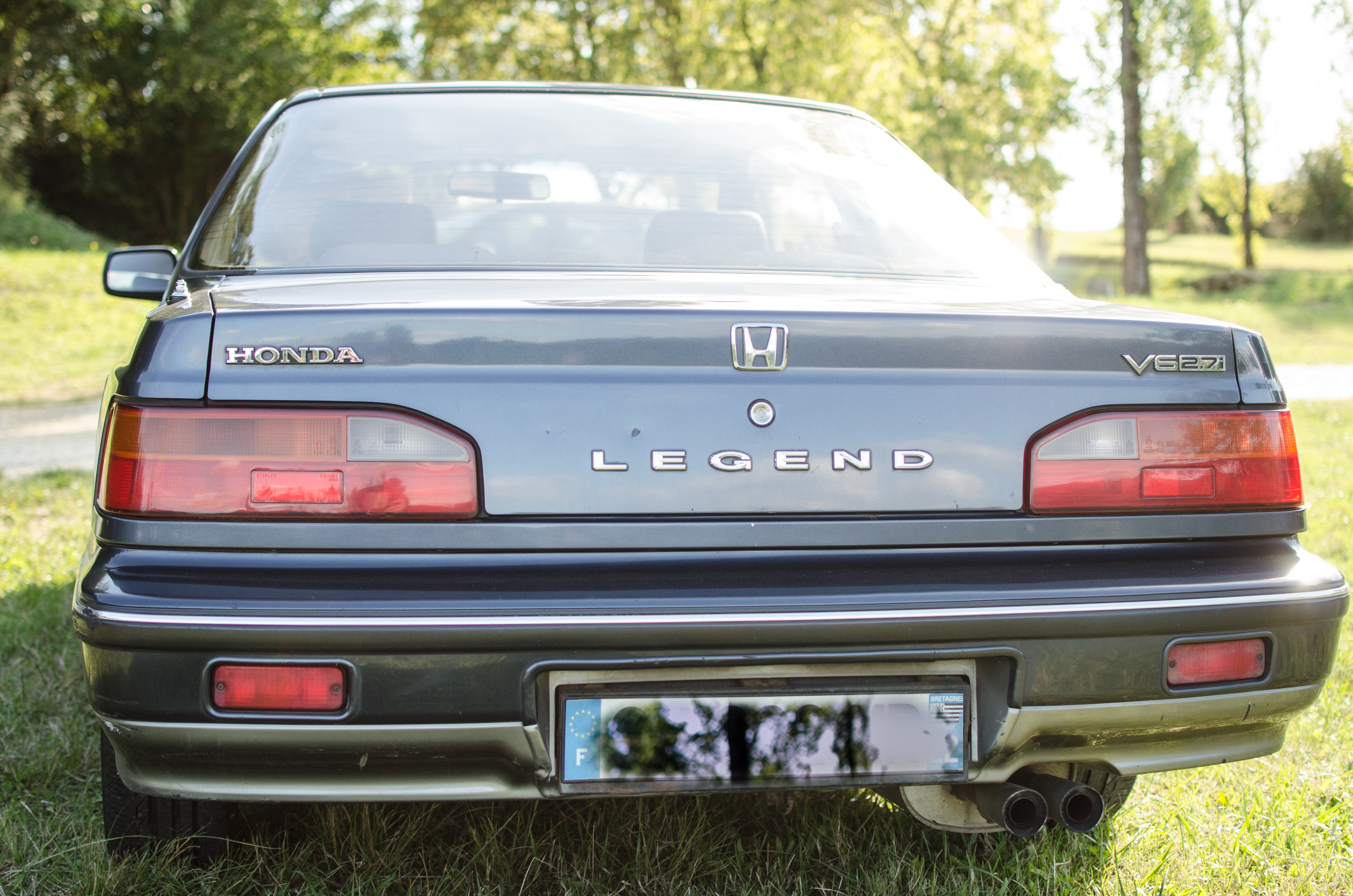 Back view of a Honda Legend coupé 1990